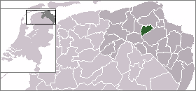 Locator map of Dutch municipalities in Groningen (LocatieTenBoer.png)